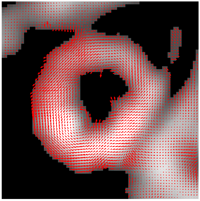 Example of the HARP Tracking Software.